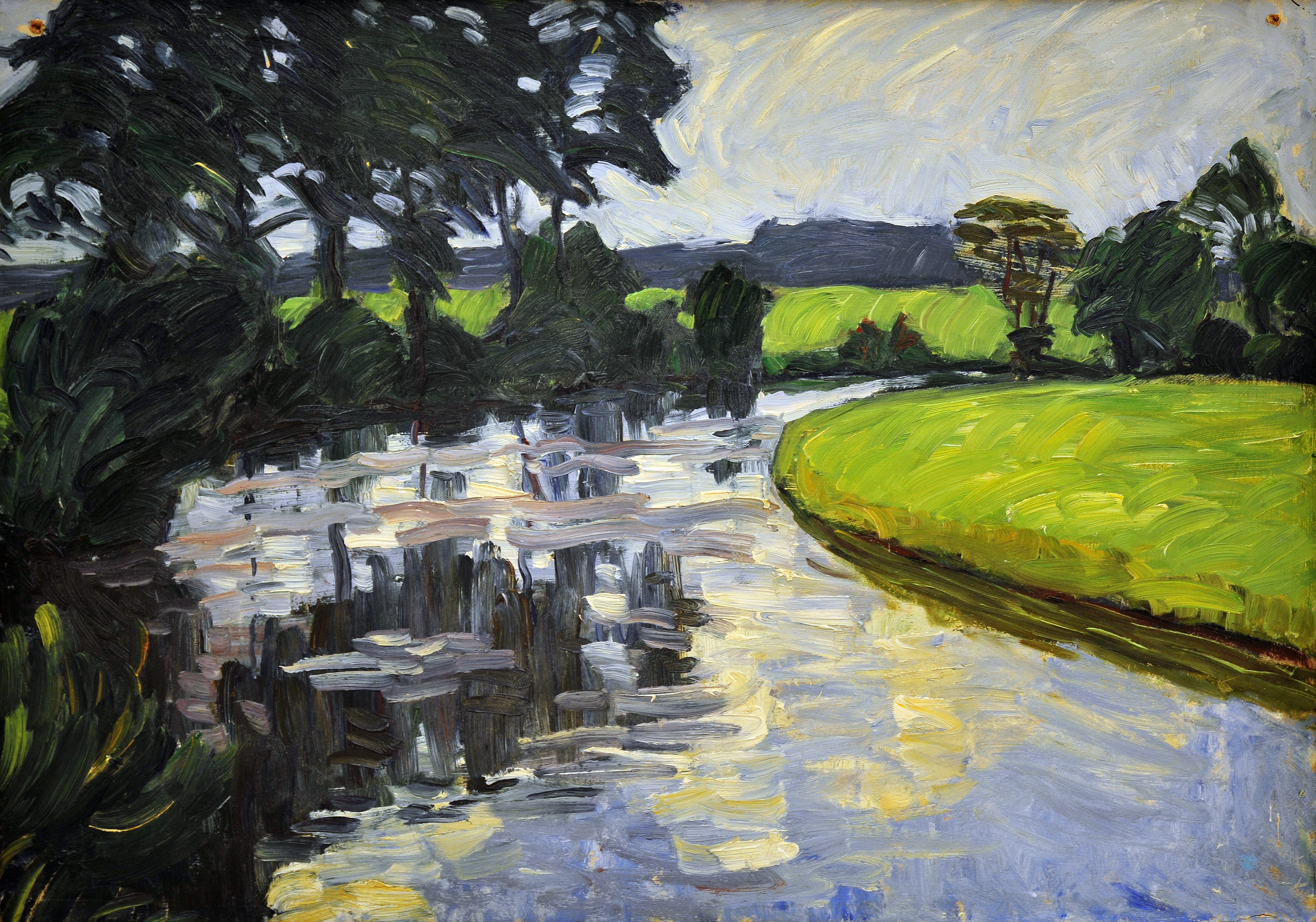 August Haake painted "At the Wümme" over a period of 1911-1914 in Fischerhude near Bremen.